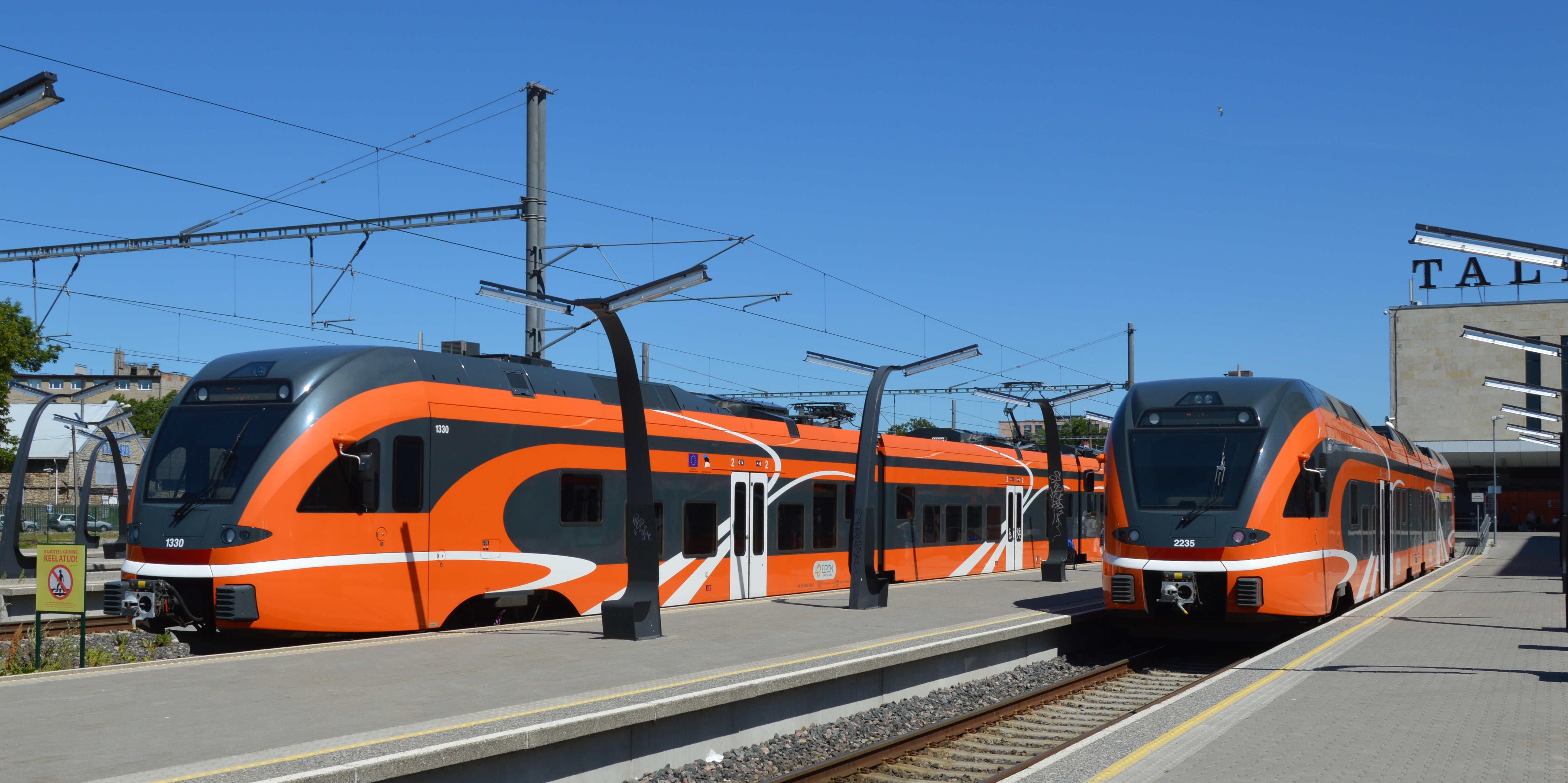 Stadler FLIRT EMU (left) and DMU (right) on the Baltic Railway Station (Balti jaam) in Tallinn